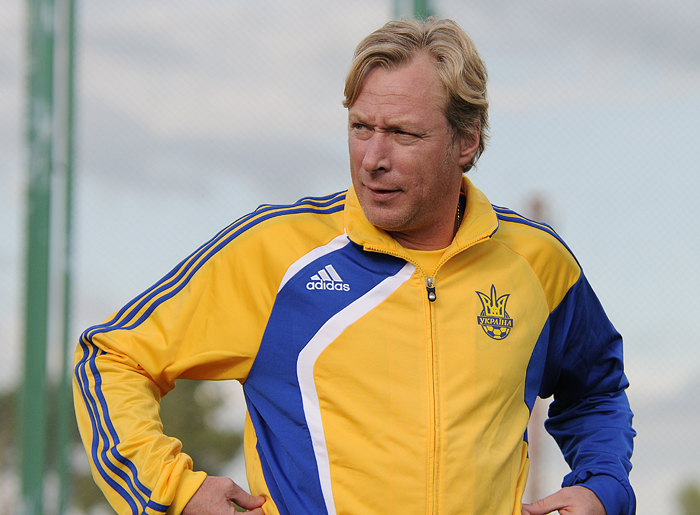 Oleksiy Mykhaylychenko